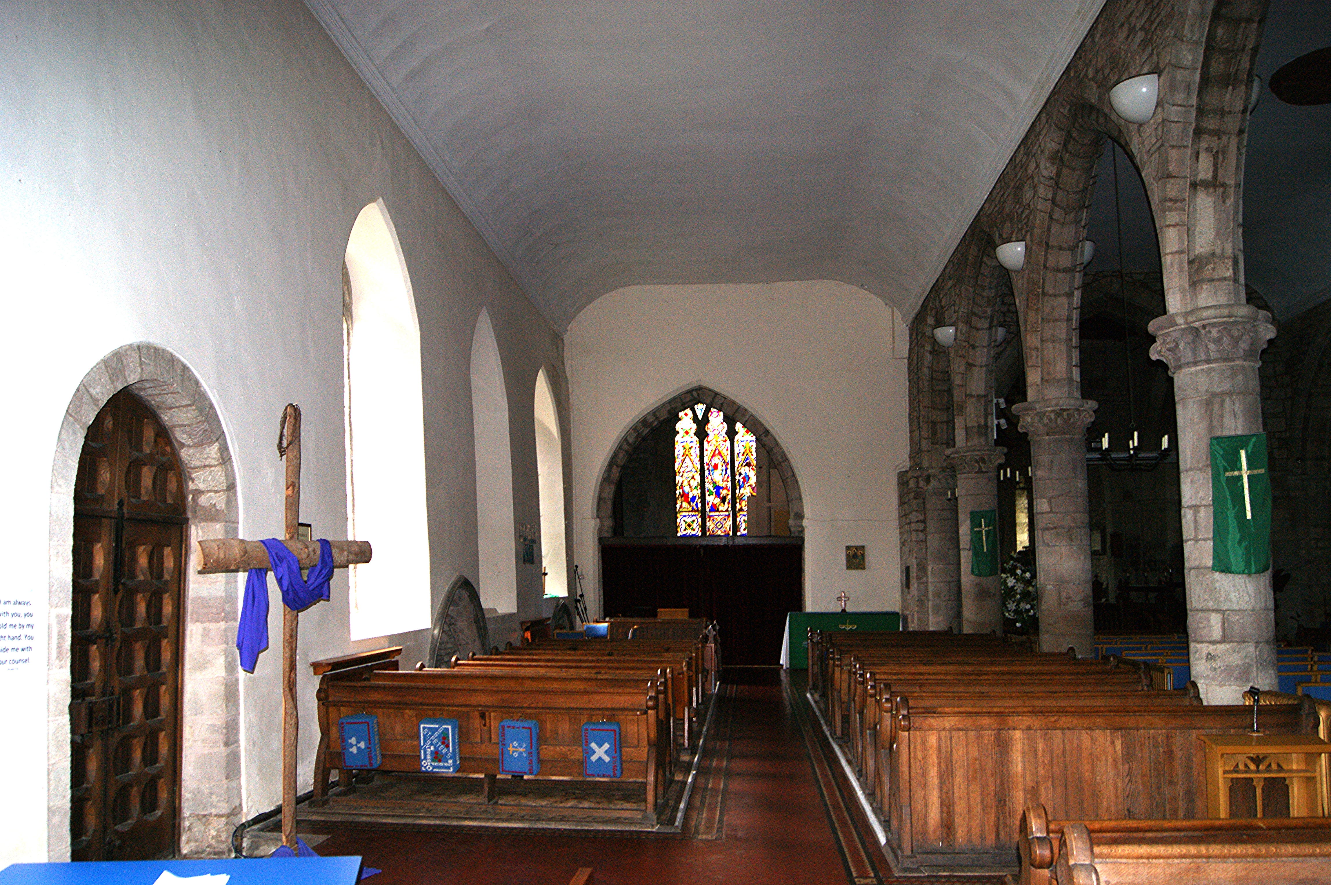 Bromyard Church (St. Peter), 22 June 2015. Founded c.840 as a Saxon Mimster, with only a carving of St. Peter and a consecration stone surviing, these being above the porch doorway. The present church is mainly 12th Century Norman with later alterations. Unusually, the aisles are approximately the same width as the nave and abut the transepts, lessening their visual impact. Pictured is the north aisle (13th Century Early English) looking towards the north transept.